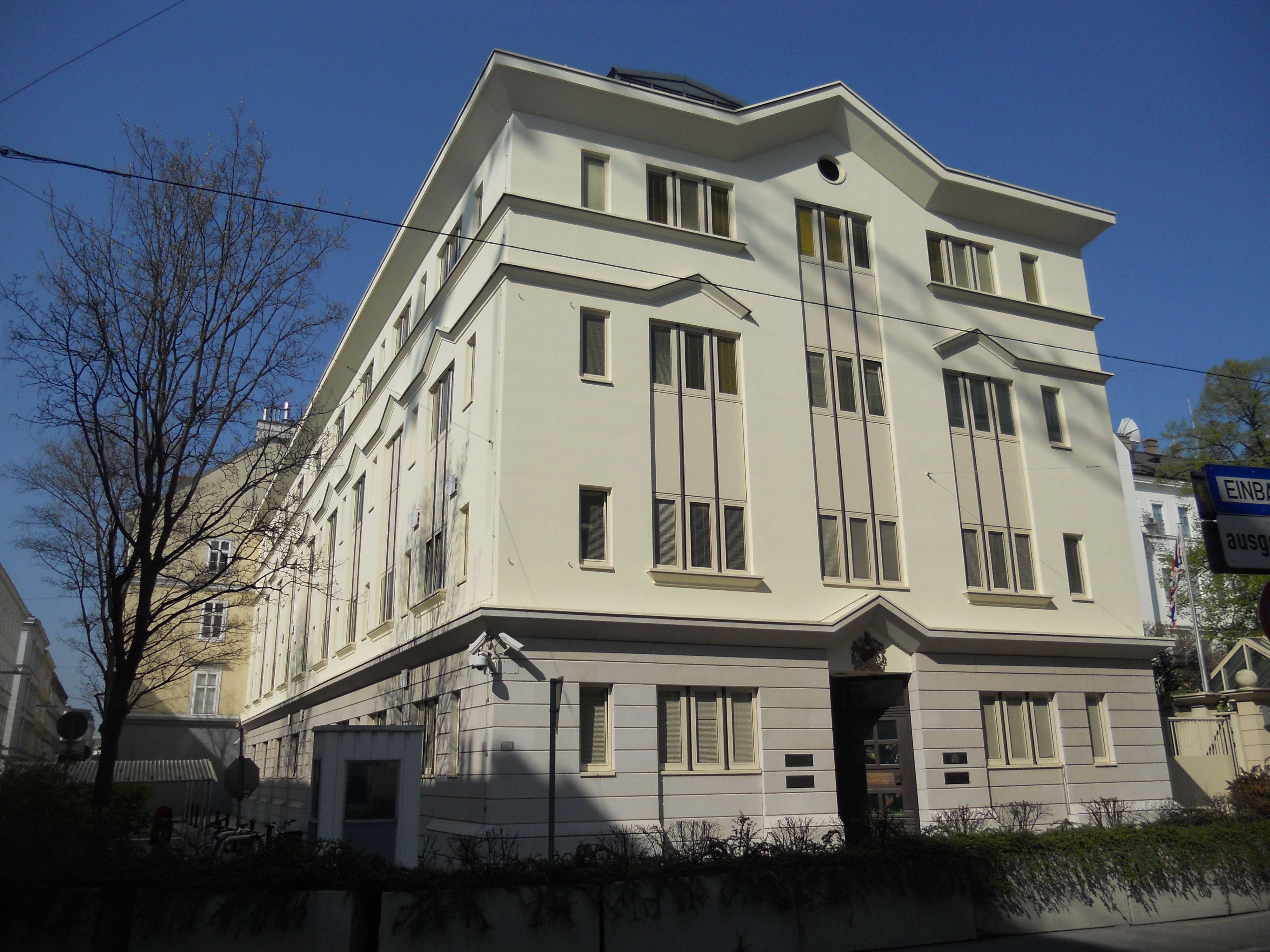 House Jaurèsgasse 12, Embassy of the United Kingdom in Vienna